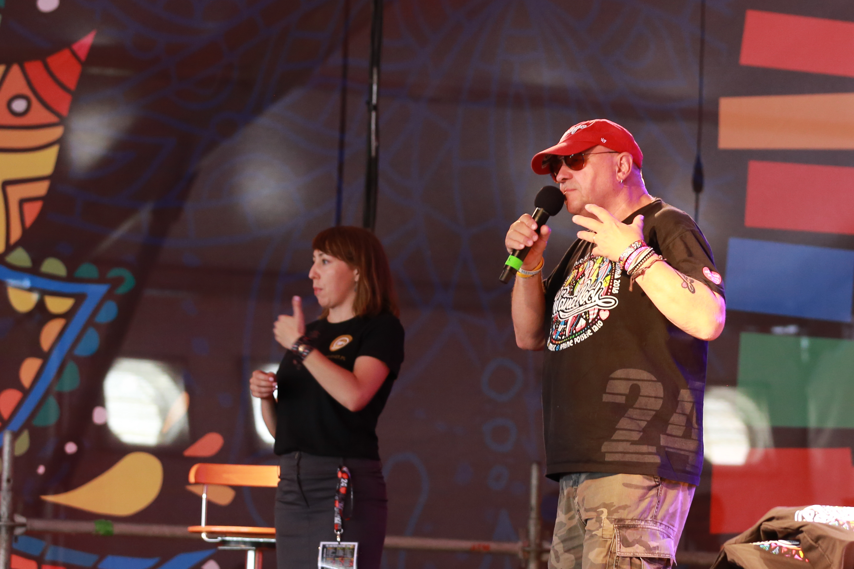 Pol'and'Rock Festival in 2018.